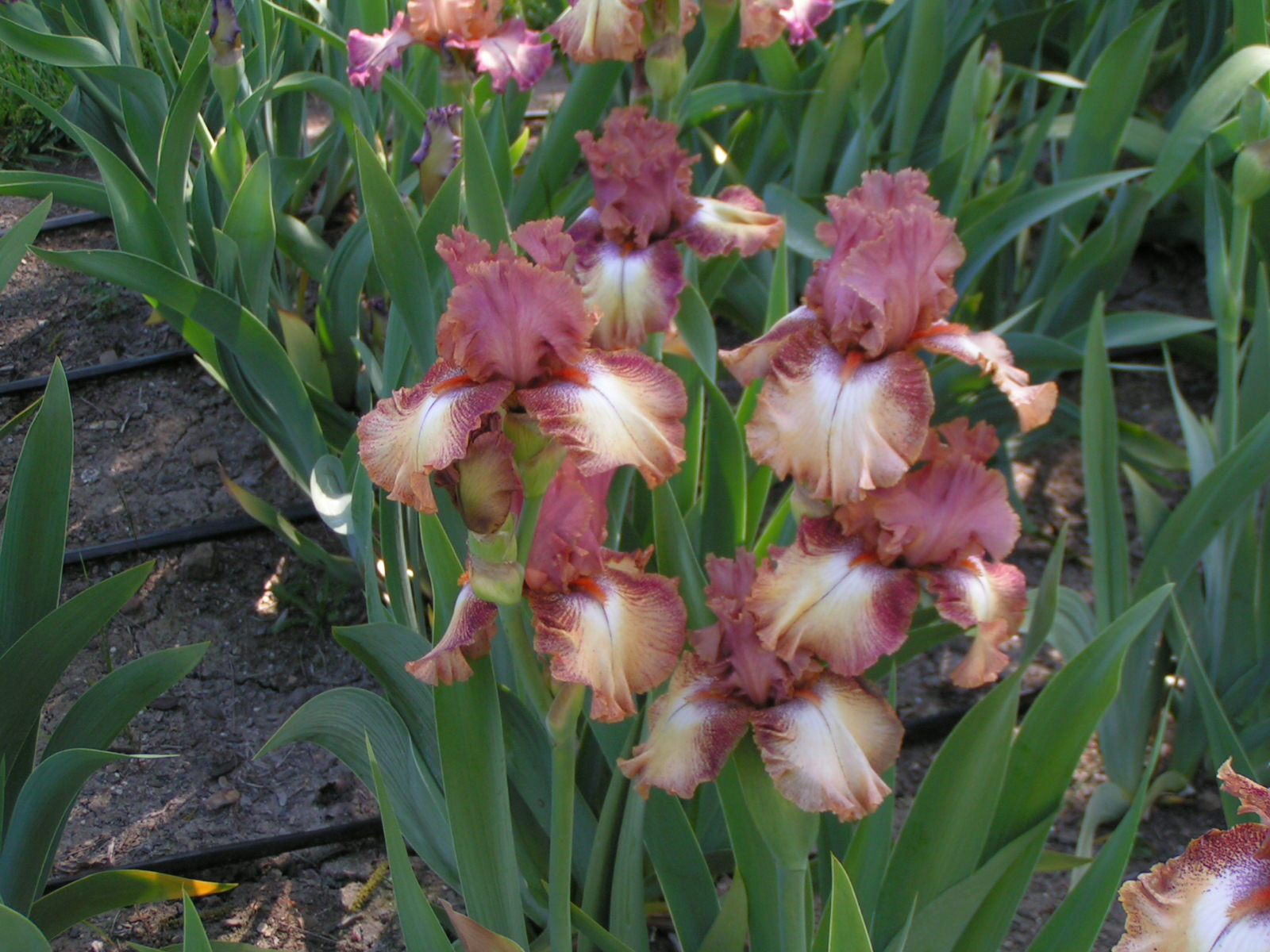 Iris flower.